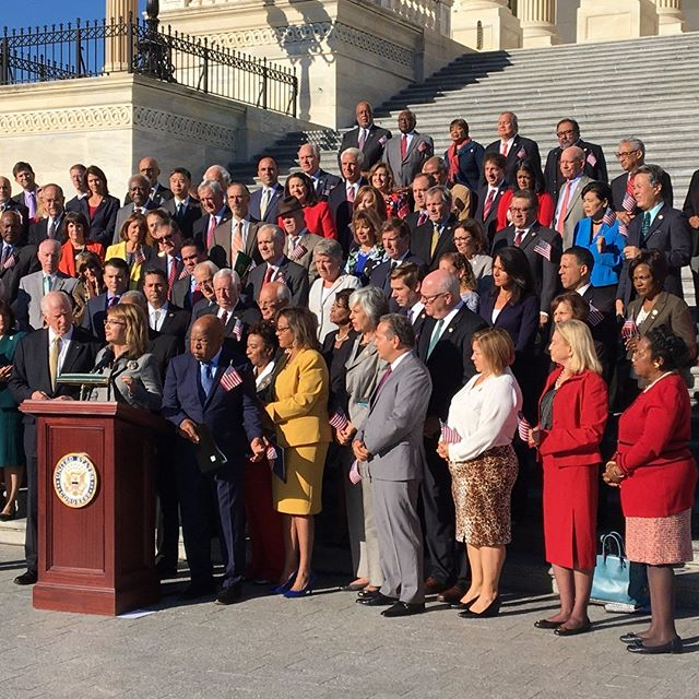 Standing with fellow House Democrats to demand a vote on commonsense gun safety measures. We must work together to #EndGunViolence in our communities and across the United States. #Maryland #MD04 #guncontrol #gunviolence #Democrats #Congress